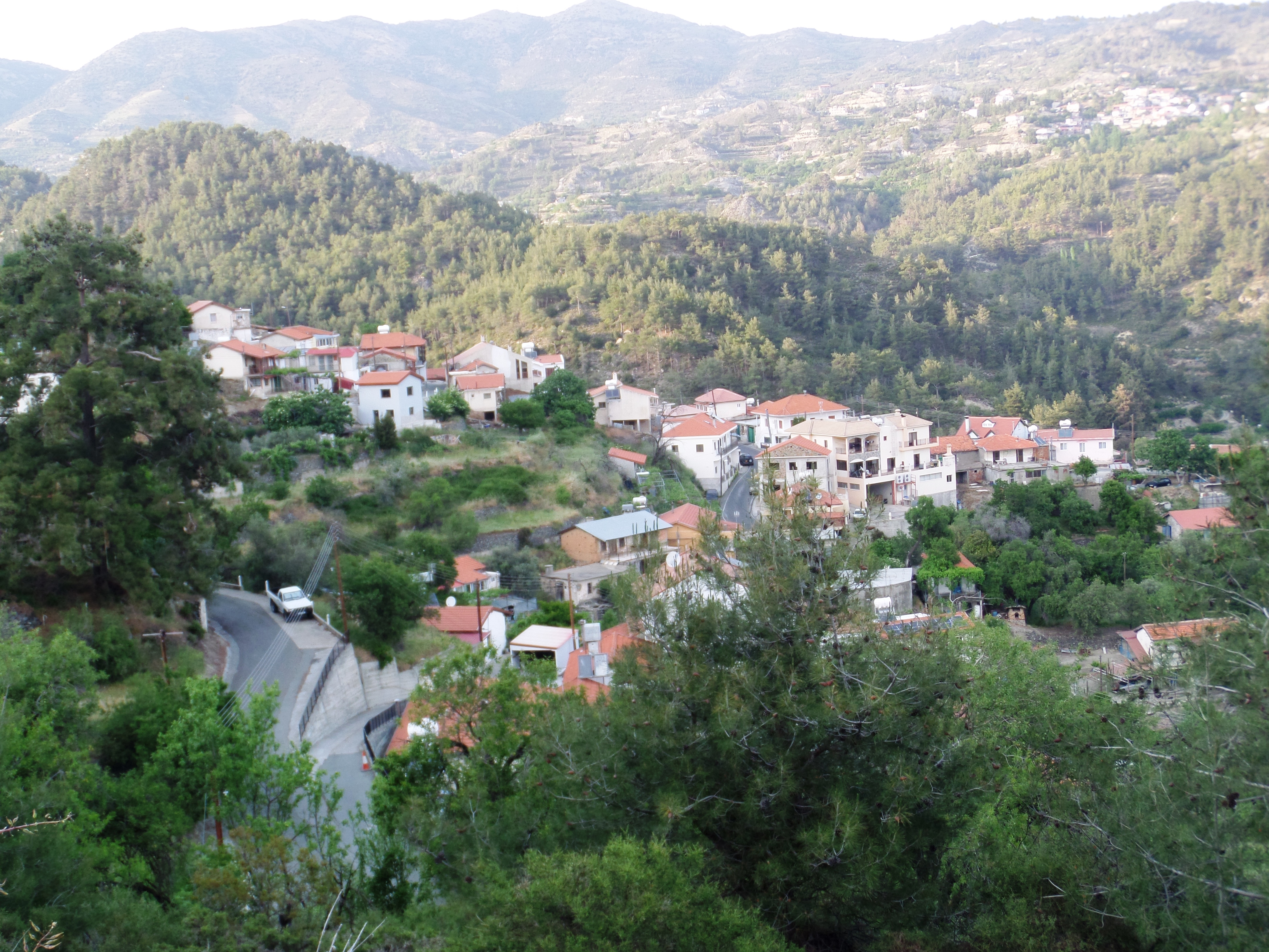 View of Dymes.